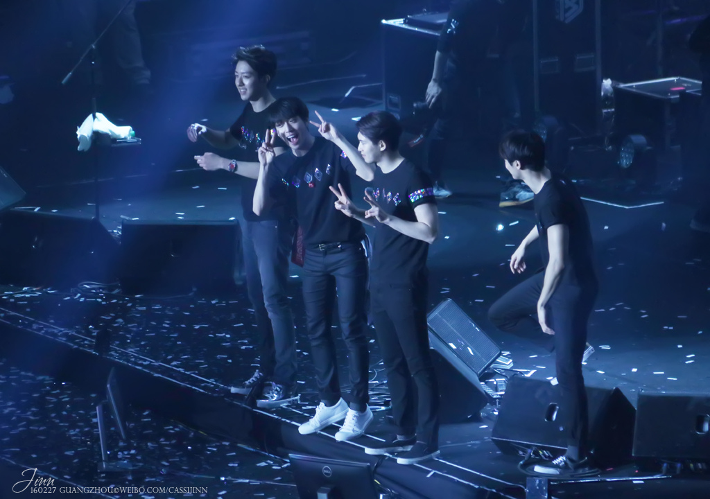 CNBLUE Live "Come Together" in Guangzhou on February 27, 2016.